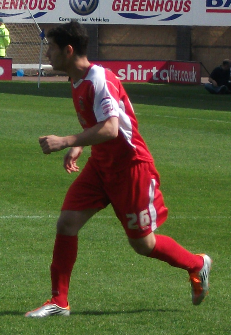 Scott Davies. Image cropped from original at Geograph.